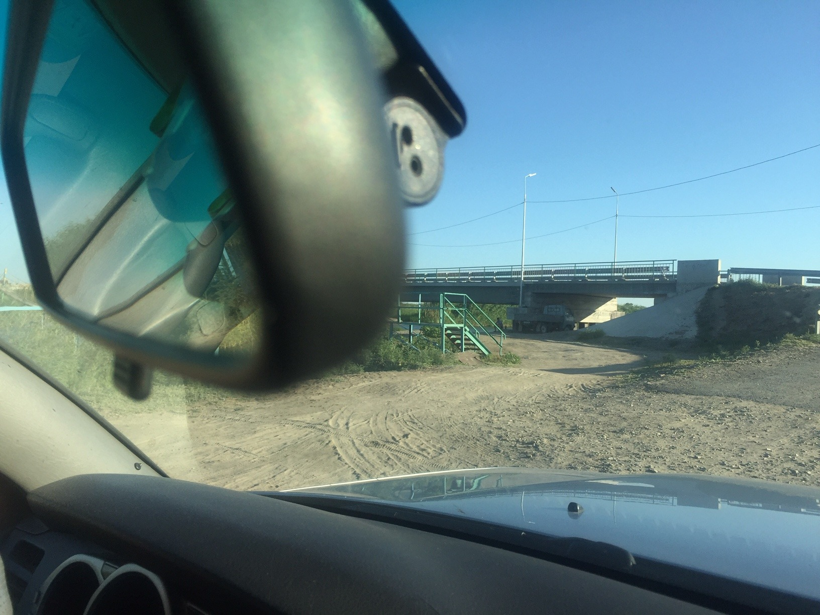 Kuygan bridge, Ili River, Qazaqstan